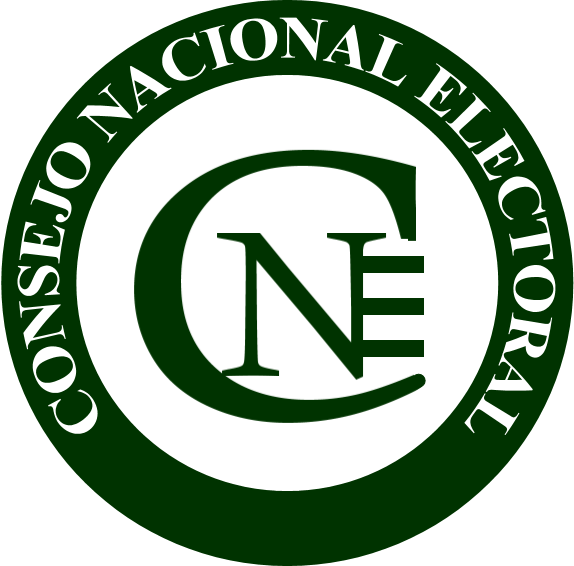 Seal of the Consejo Nacional Electoral of Colombia